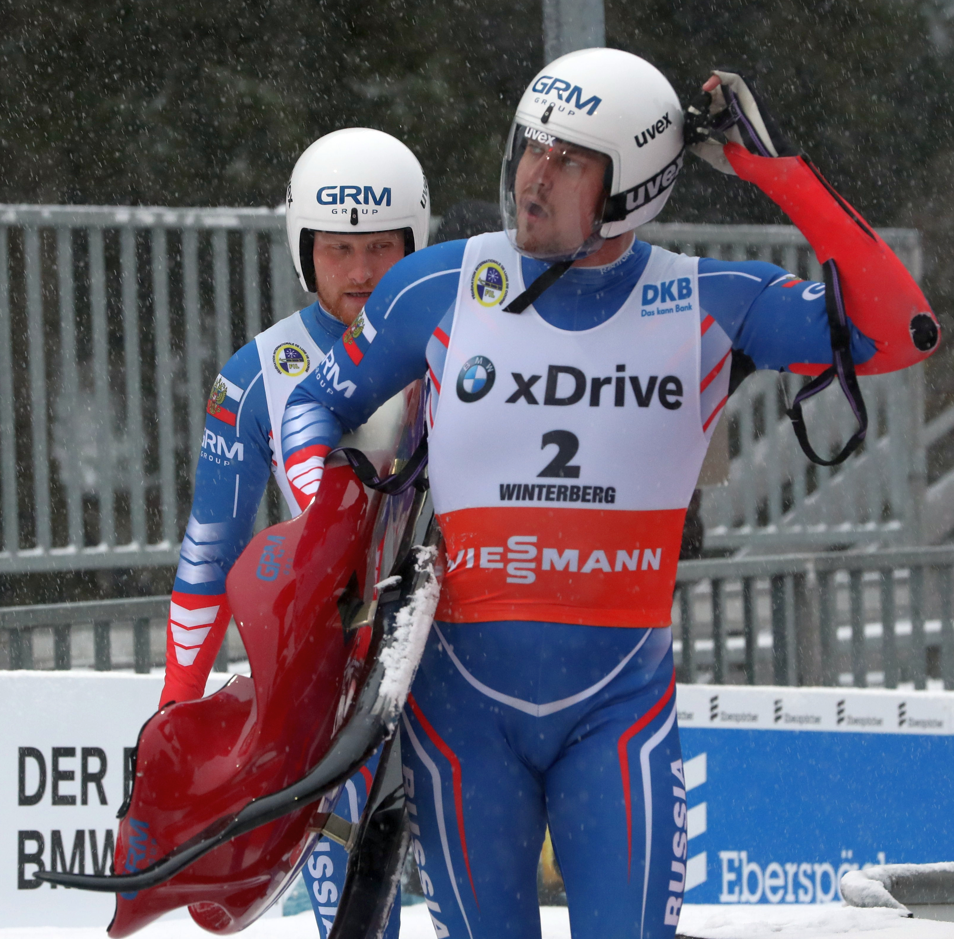 Sprint World Cup Doubles in Winterberg: Alexander Denisyev, Vladislav Antonov